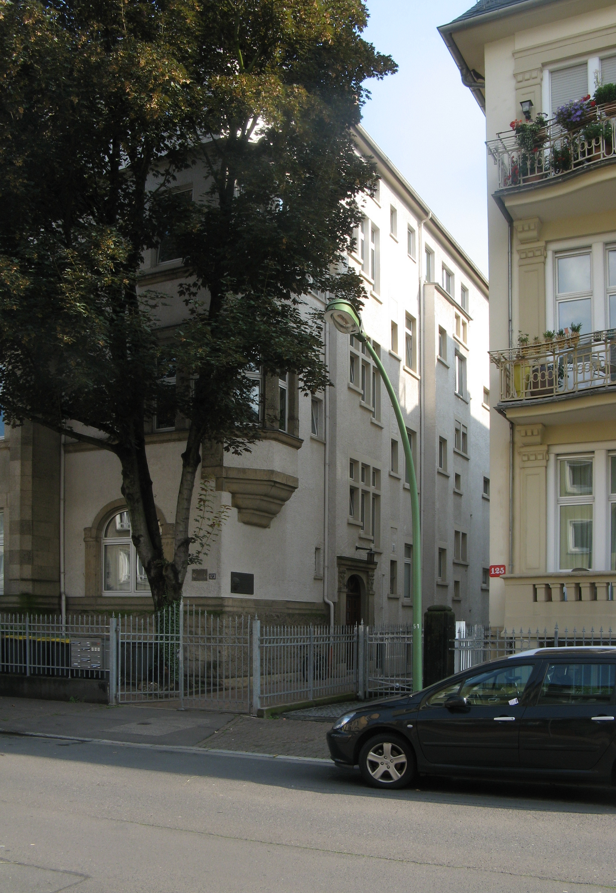 Kettenhofweg 123, house where philosopher Theordor W. Adorno from 1949 until his death 1969